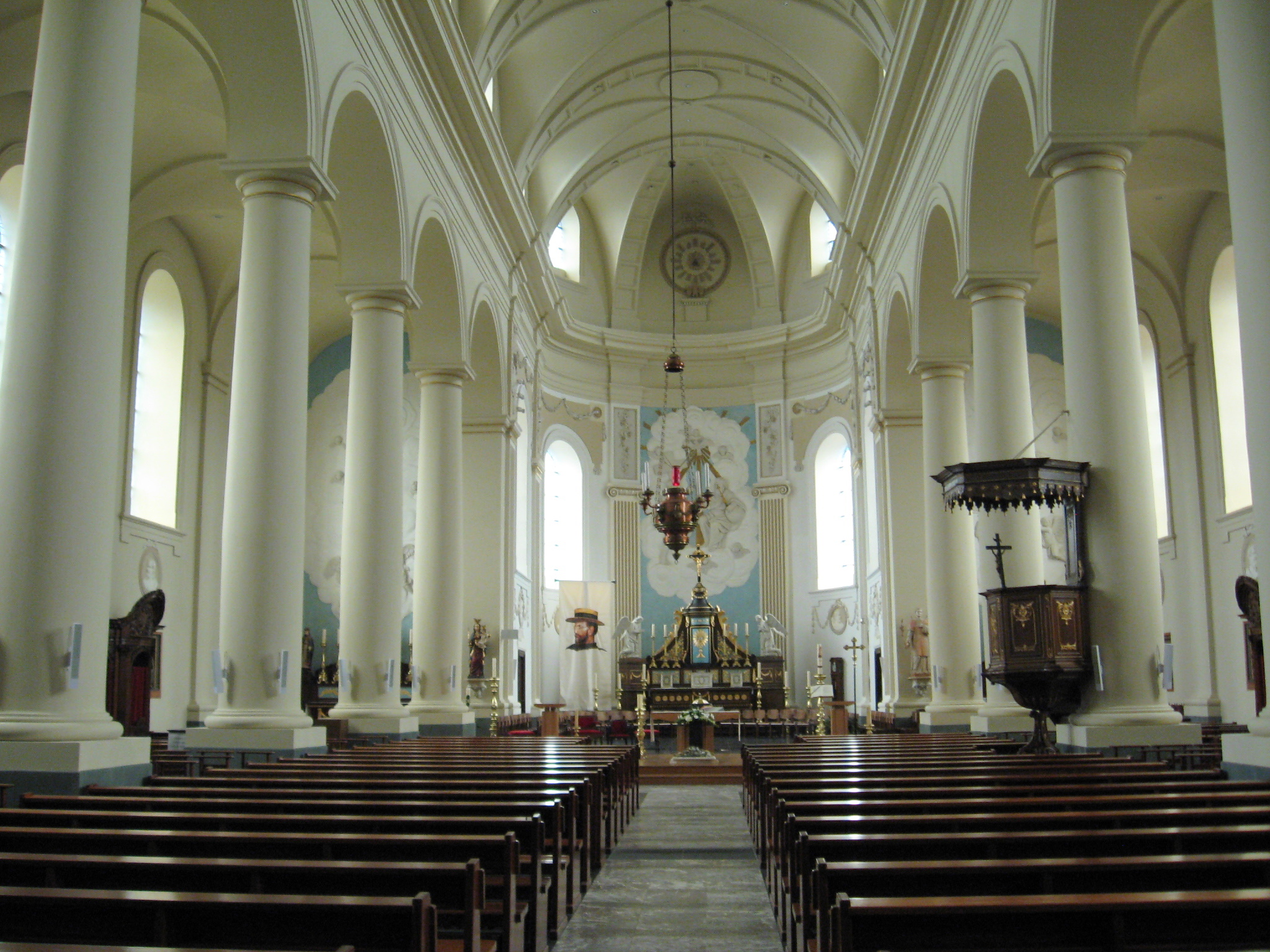 Church of Saint Quentin in Zonhoven, Limburg, Belgium. Inside of the church.